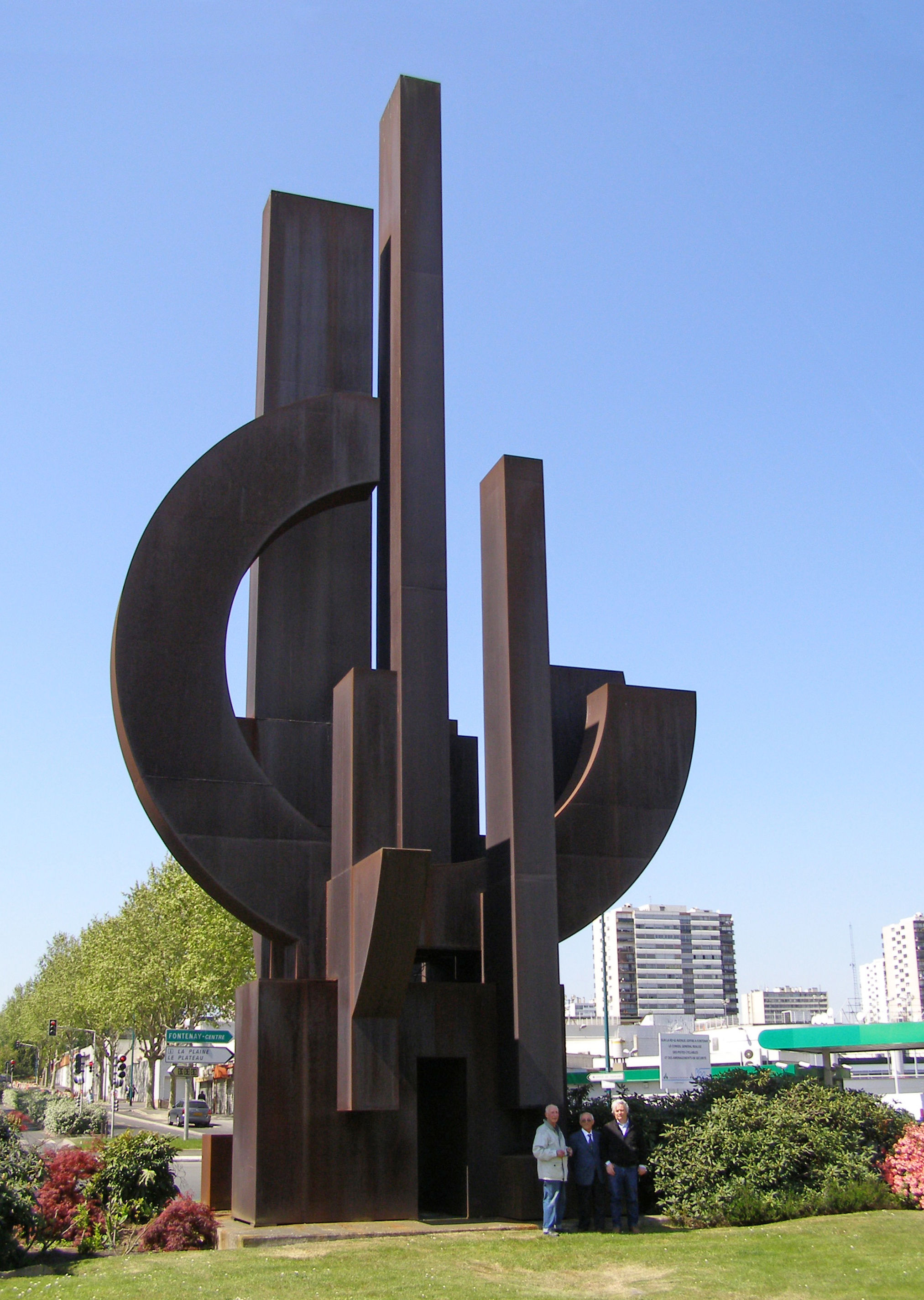 The largest monumental architectural sculpture made by the italian sculptor Marino di Teana in 1990 in Fontenay sous Bois. 21 meters high, 100 tons of corten steel, The plan of this piece was made by the artist alone, in pencil, without any computer help. Marino di Teana is the pioneer of sculpture architecture. This piece is perfectly balanced. It could be even bigger, and Marino di Teana even imagines it as a habitable building.